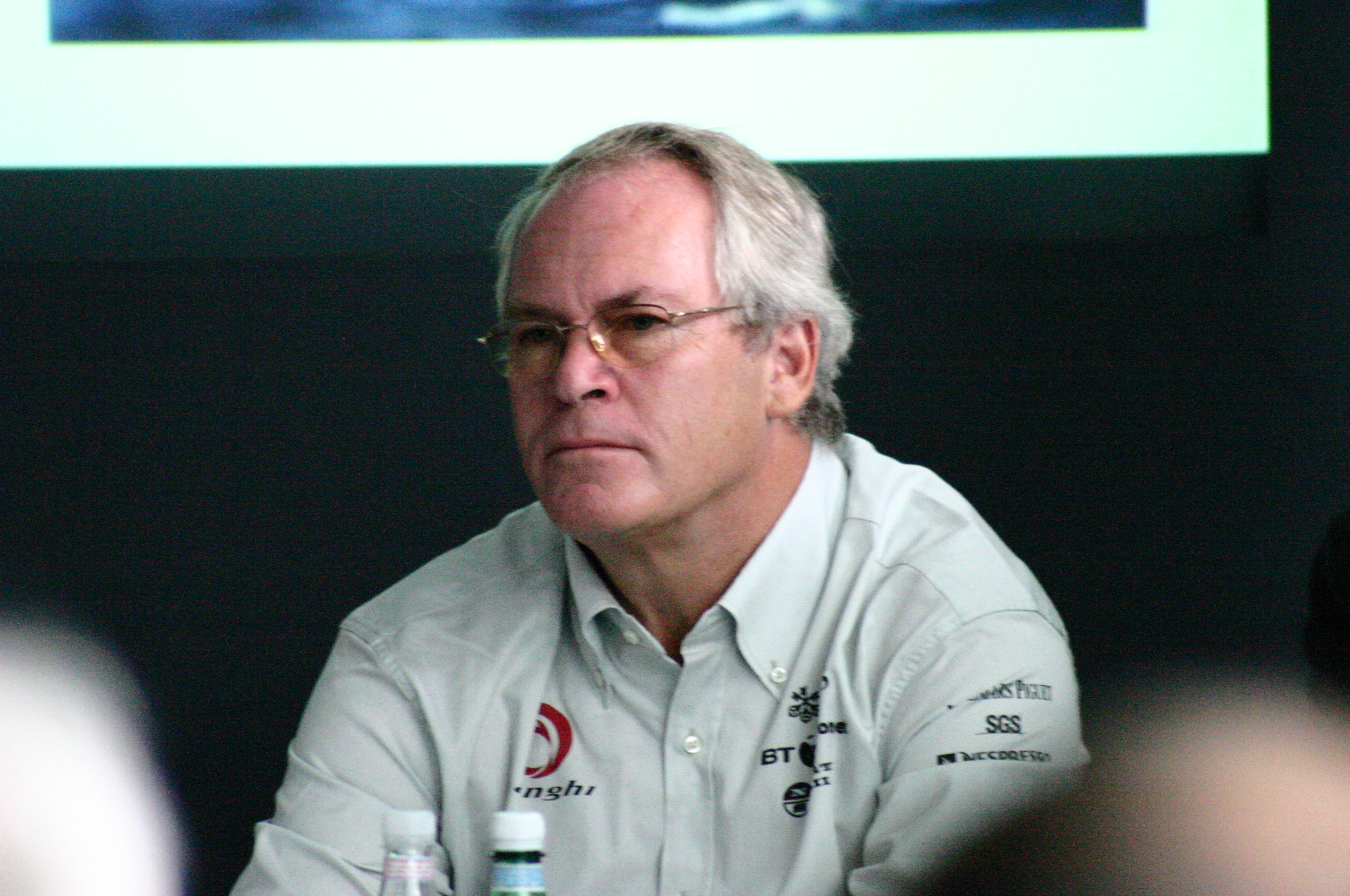 Alinghi on display at the EPFL, 30th of August 2006 : Rolf Vrolijk